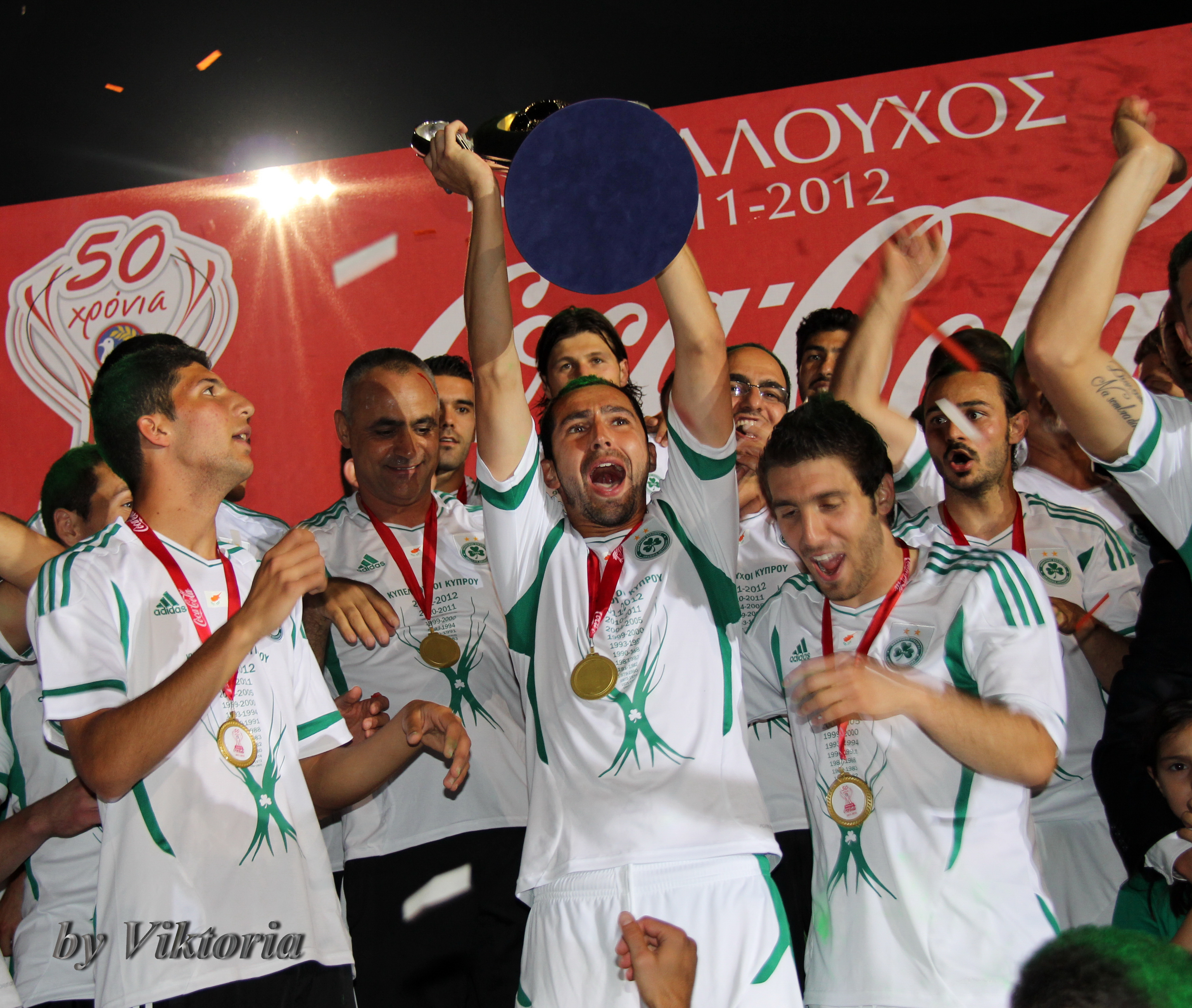 Sofyane Cherfa